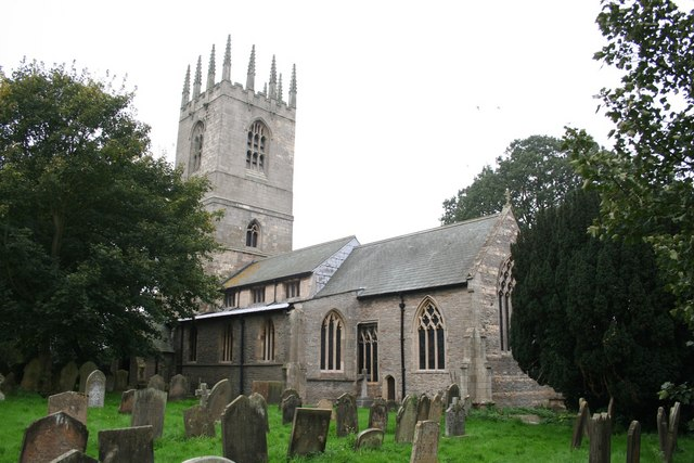 SS Peter and Paul's parish church, Sturton-le-Steeple, Nottinghamshire, seen from the southeast